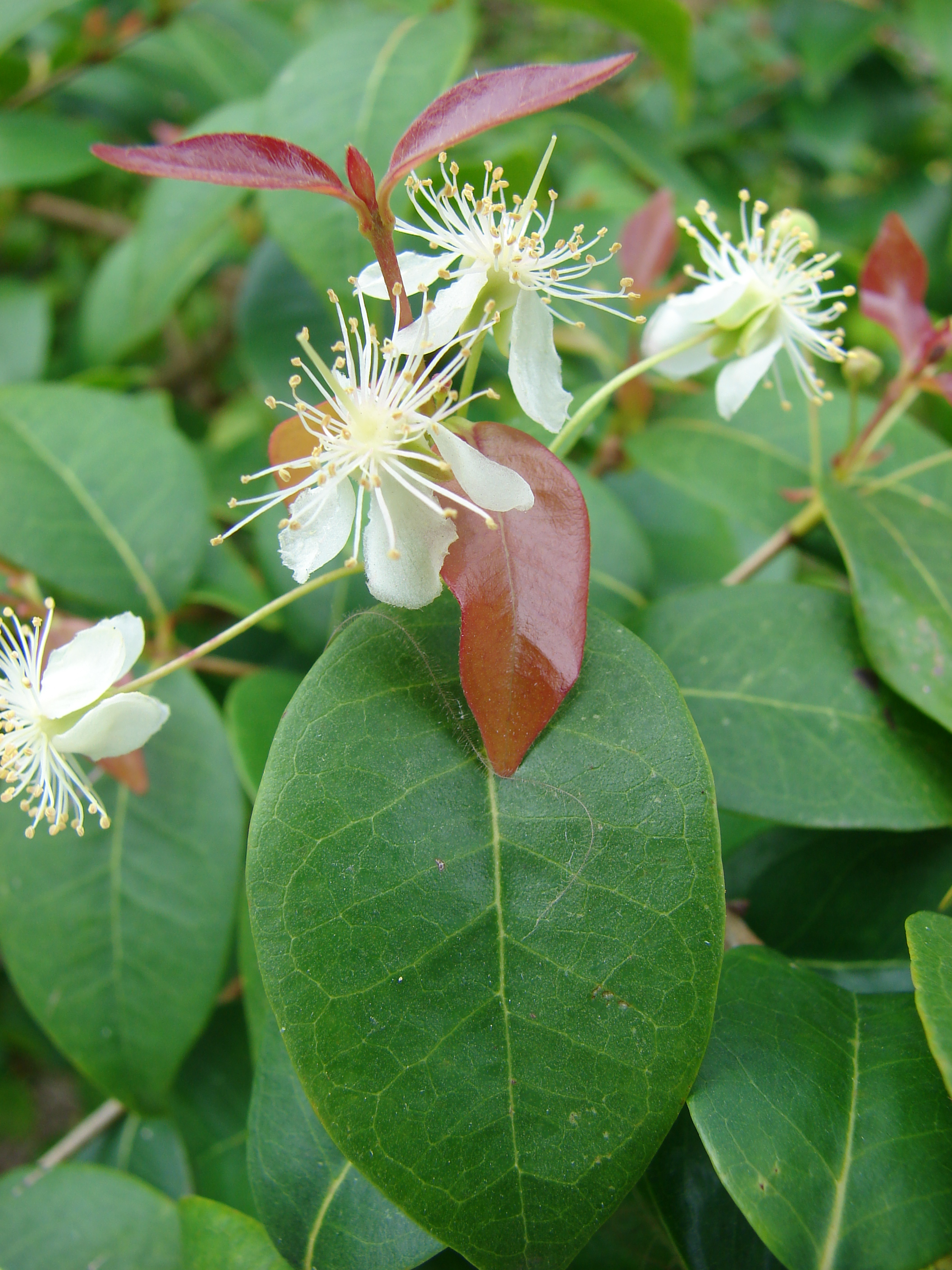 Eugenia uniflora (flowers and leaves). Location: Midway Atoll, Cable Company buildings Sand Island